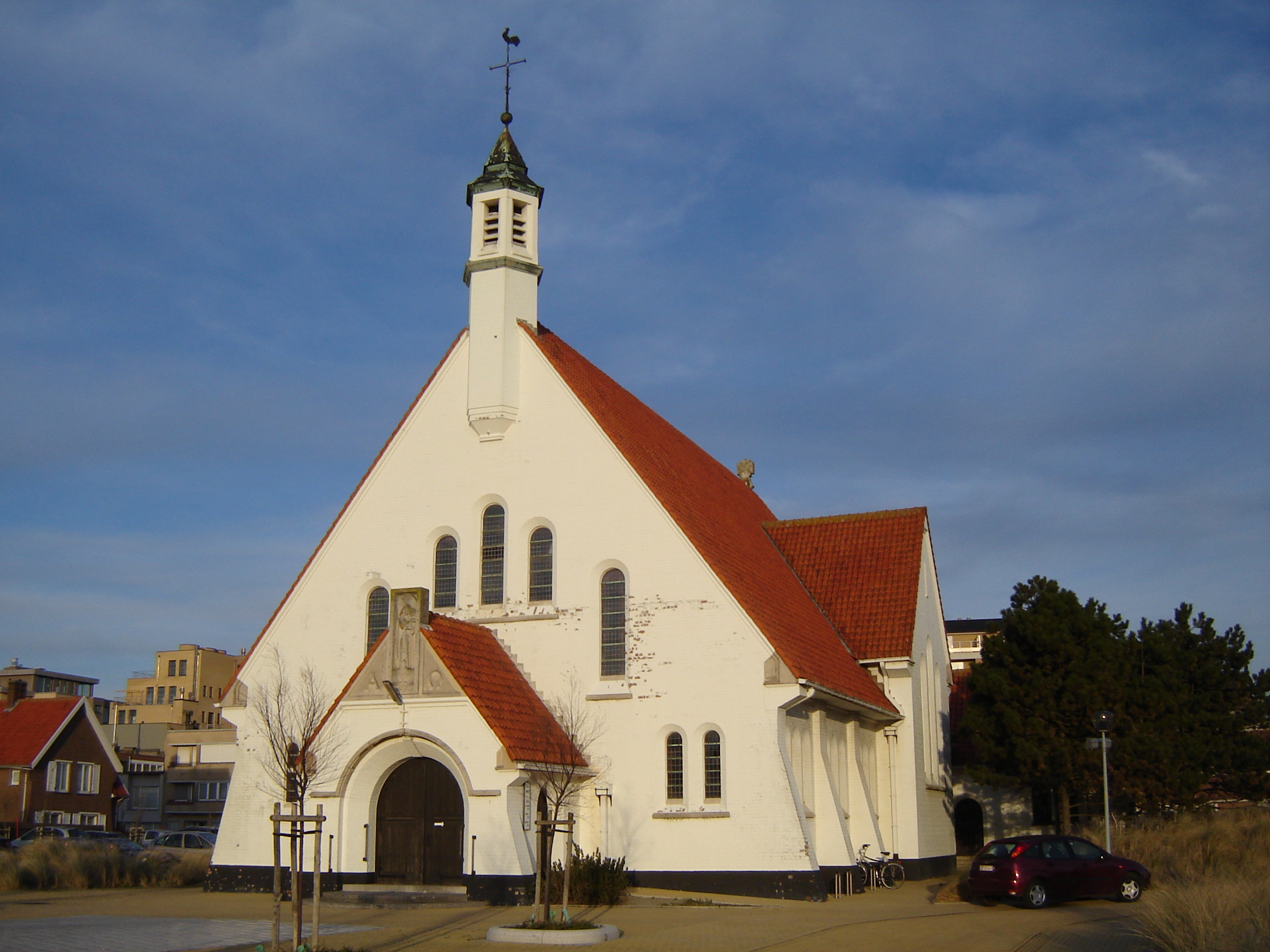 Stella Maris Church in Zeebrugge-Bad. Zeebrugge, Brugge, West Flanders, Belgium.